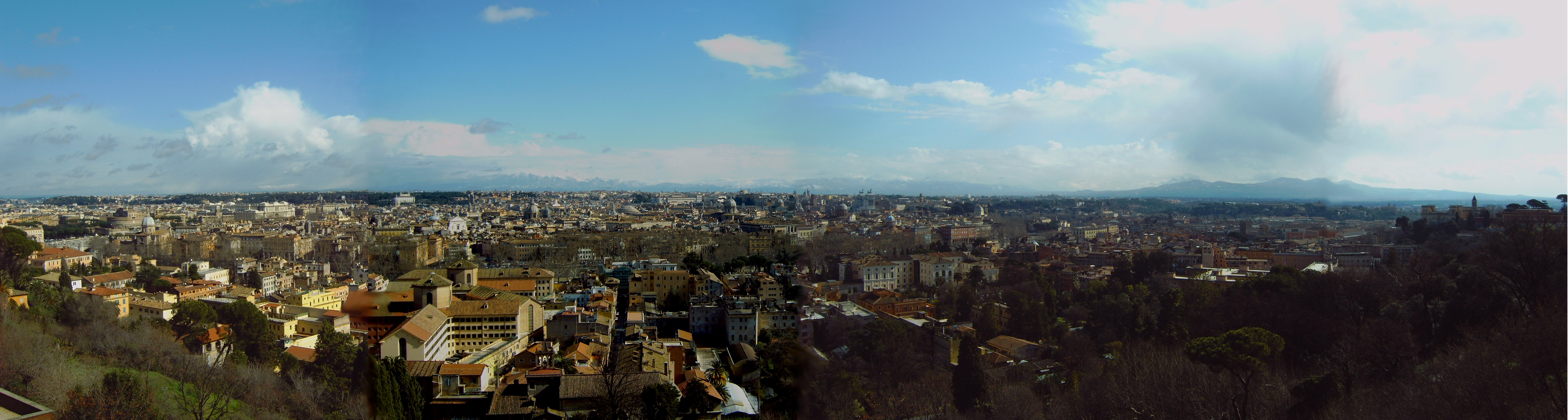 View from the hill Gianicolo, Rome, Italy Photo taken in March 2004 and modified by fi: käyttäjä:Ianuaria